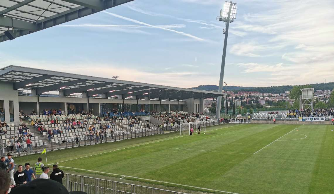 South Stand of Bonifika Stadium, taken on 25 May 2019 during a match between FC Koper and MNK Izola.